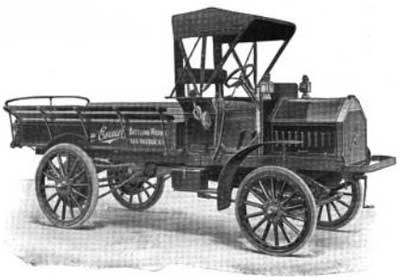 1911 Abresch-Cramer Model A, with a payload of 1.5-2 tn. These trucks were assembled vehicles built by the Charles Abresch Co. of Milwaukee, Wisc. Coachwork was done in-house, as the Company was a Long time builder of Commercial horse drawn vehicles. Engine was a 23 HP 4 cylinder unit. All trucks featured shaft drive to the countershaft, and chains to the rear wheels. Most Abresch-Cramer customers were brewers or bottlers.